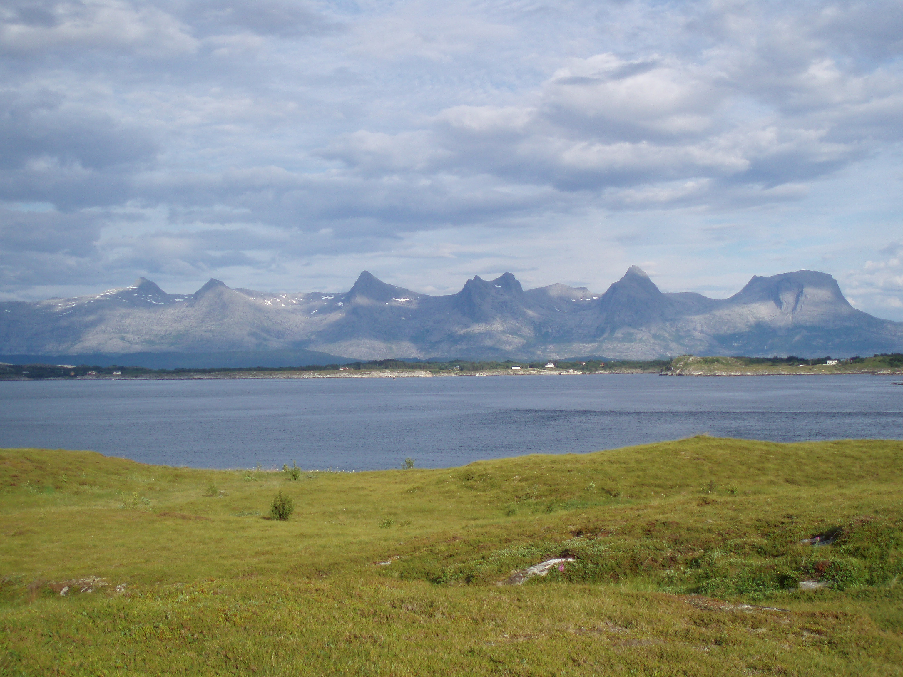 The seven mountains "De Syv Søstre" (in Norwegian) near the city Sandnessjøen, Norway. Picture is taken from the island Dønna in west.